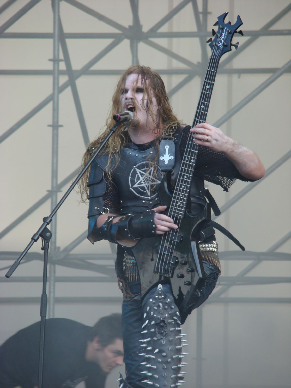 Vortex of Dimmu Borgir, Gods of Metal festval, 2007